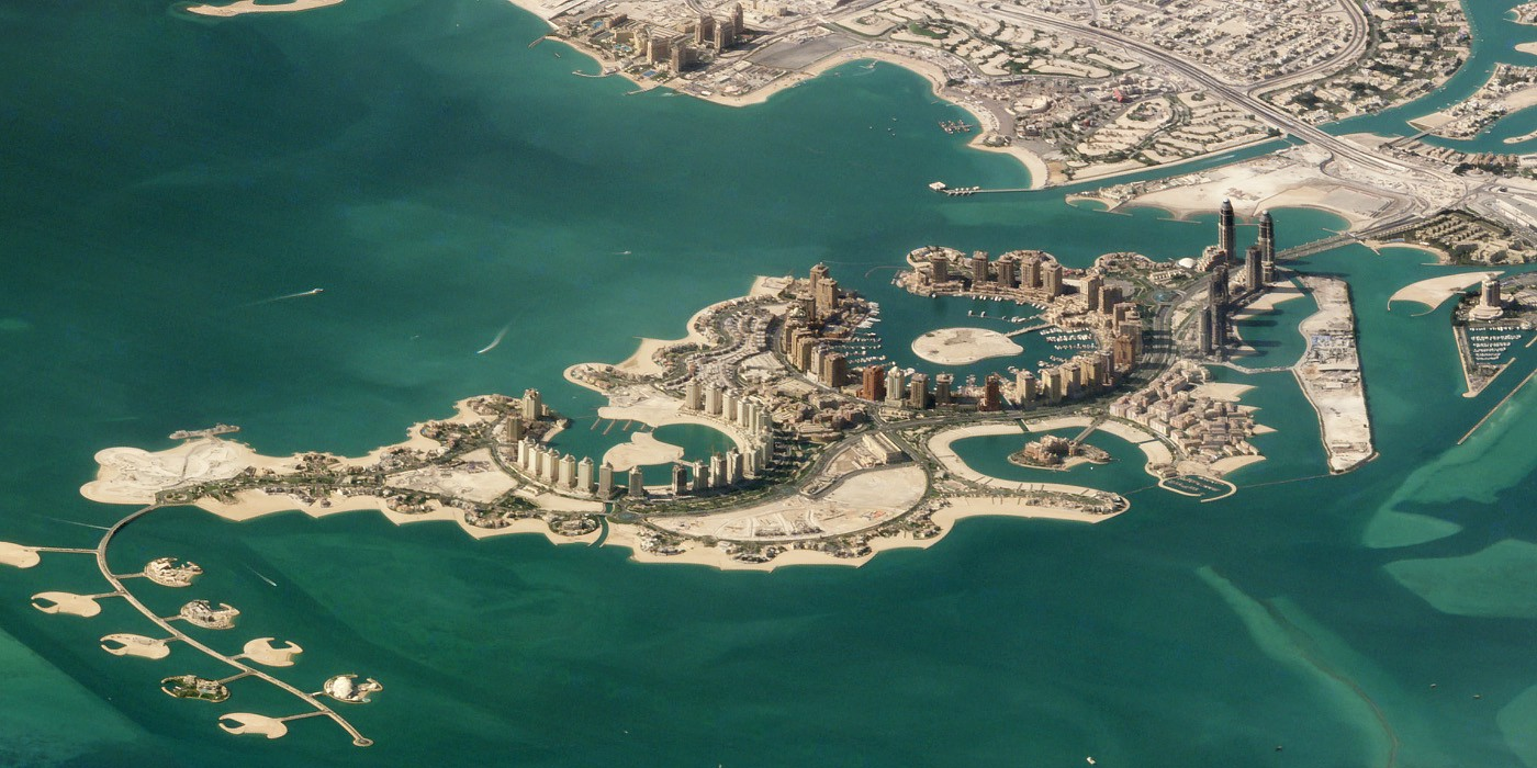 SkySat satellite image of The Pearl-Qatar in Doha, Qatar.